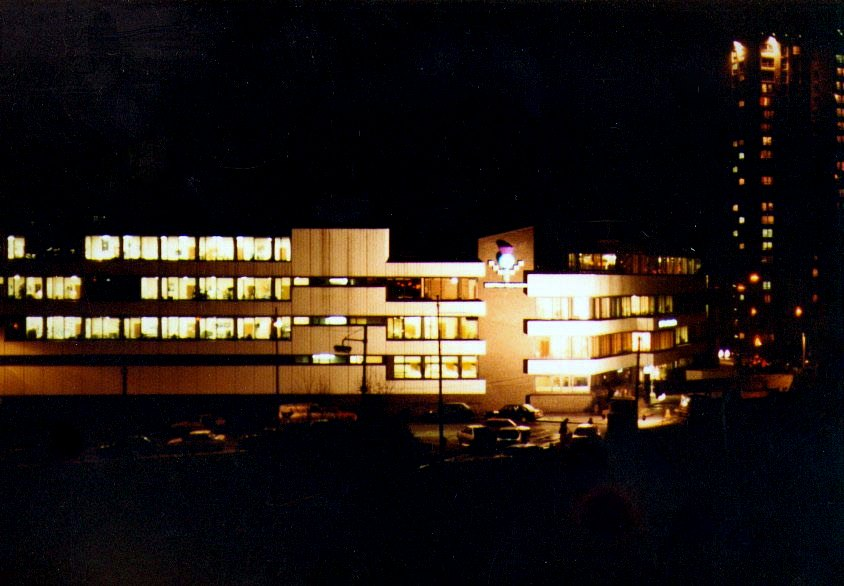 STVs former headquarters at Cowcaddens is floodlit in preparations for filming an exterior sequence for opening titles of "What's On Channel 10, Hen?" a celebration of STV's 30th Birthday celebrations.